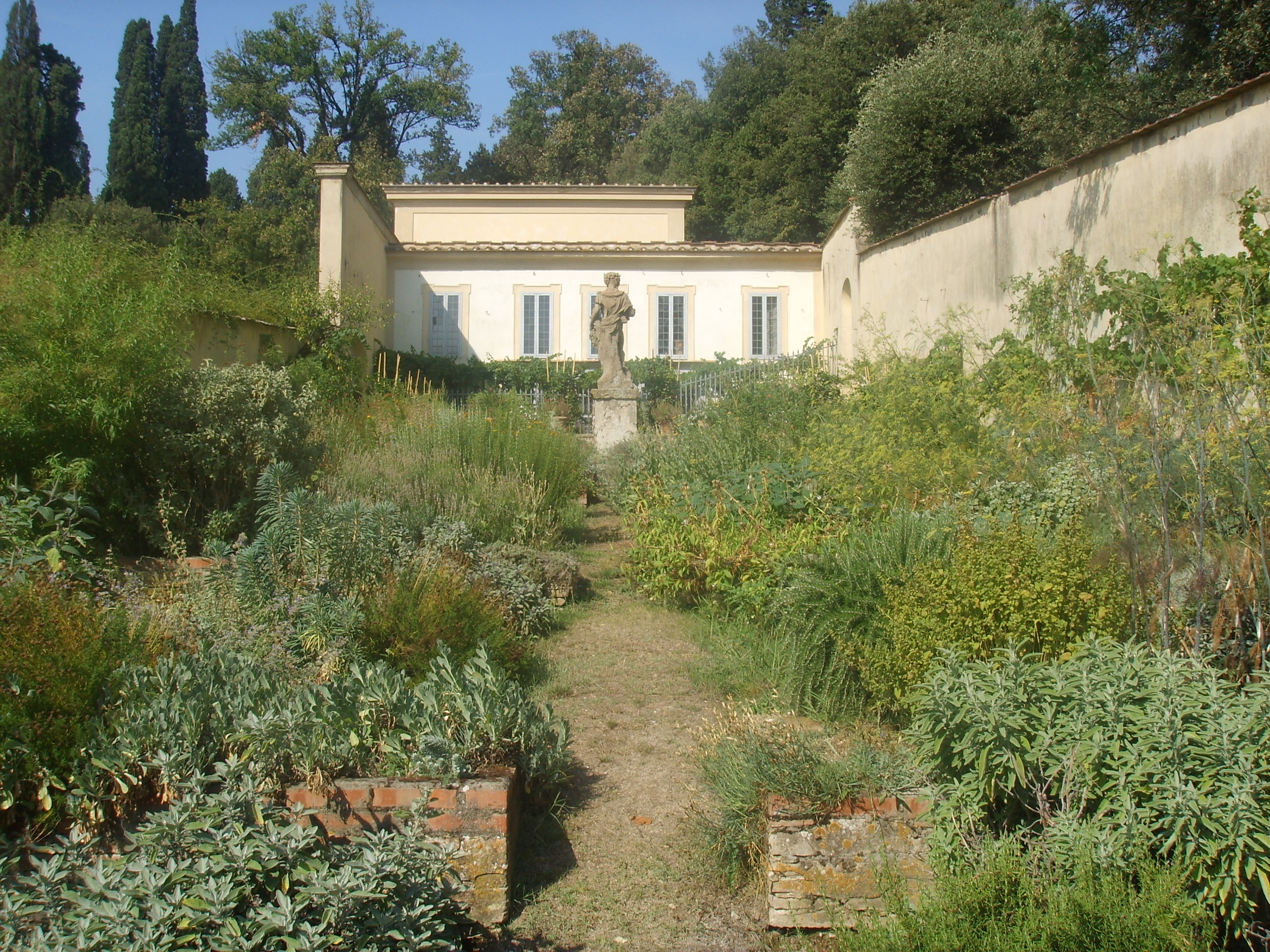 The Aromatic Secret Garden (Orto segreto di piante aromatiche) — at the Parco di Villa Reale di Castello (villa gardens). The walled garden shelters and intensifies herbs and other aromatic plants. It is part of the Italian Renaissance gardens at the Villa Reale di Castello — in Florence, Tuscany - Italy.